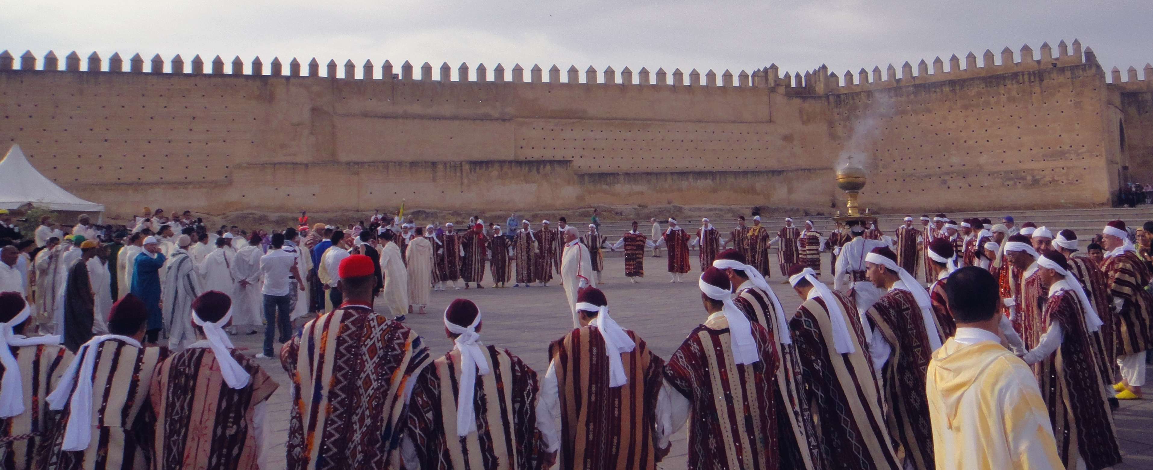 Music Sacred Festival Fez Dance Folklore Moroccan Traditional photo was taken Issawa Moussem Molay Driss zerhon From Fez Morocco.